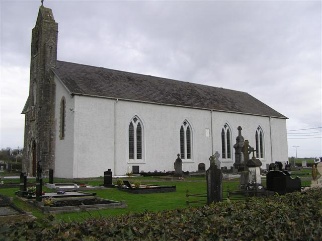 Killyneill RC Church It is located at Tyholland